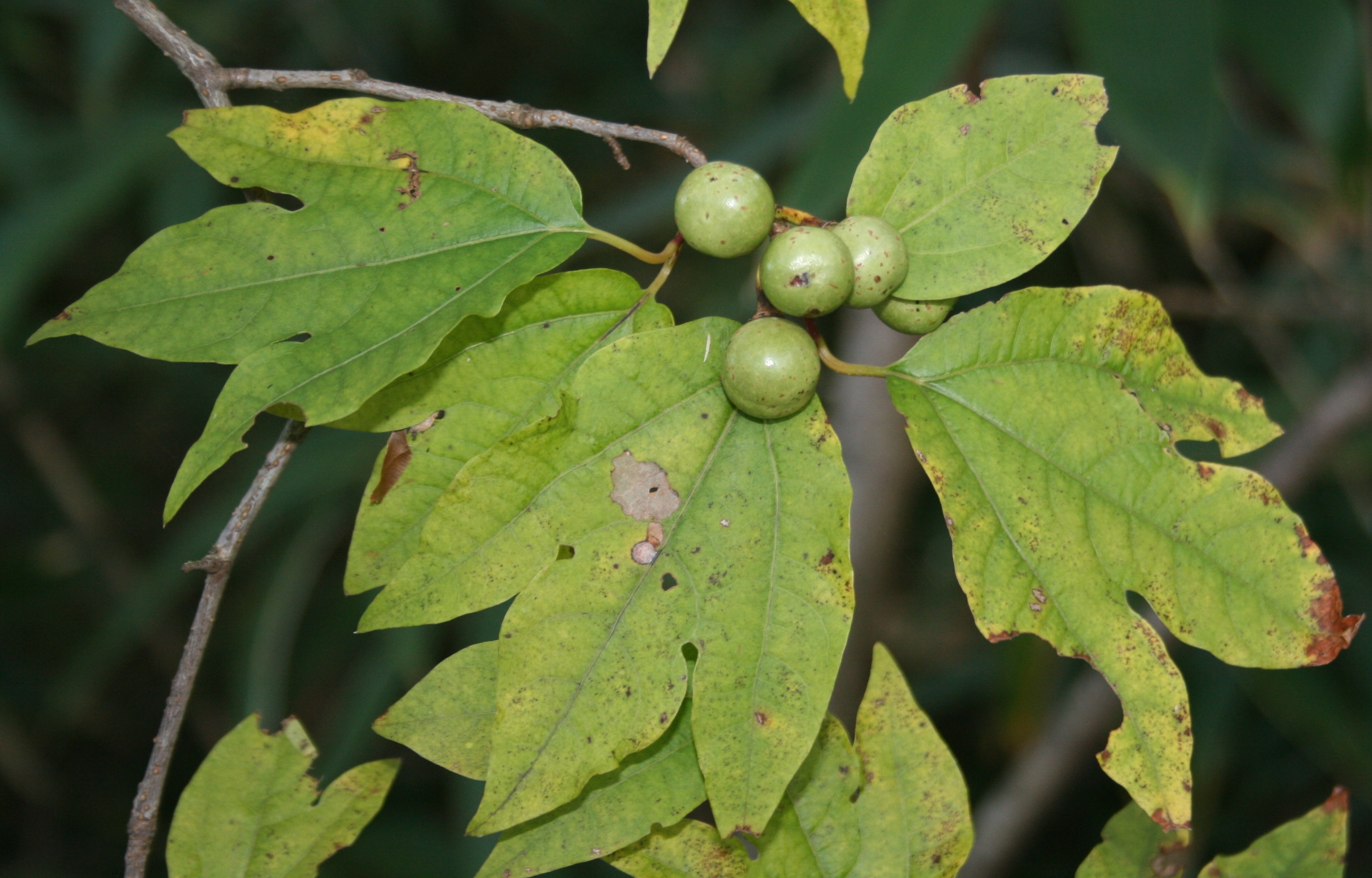 Lindera triloba, leaf and fruit